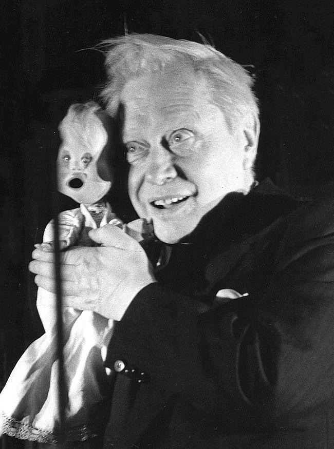 Soviet puppeteer Sergey Obraztsov performing in a show. Milan, 1973